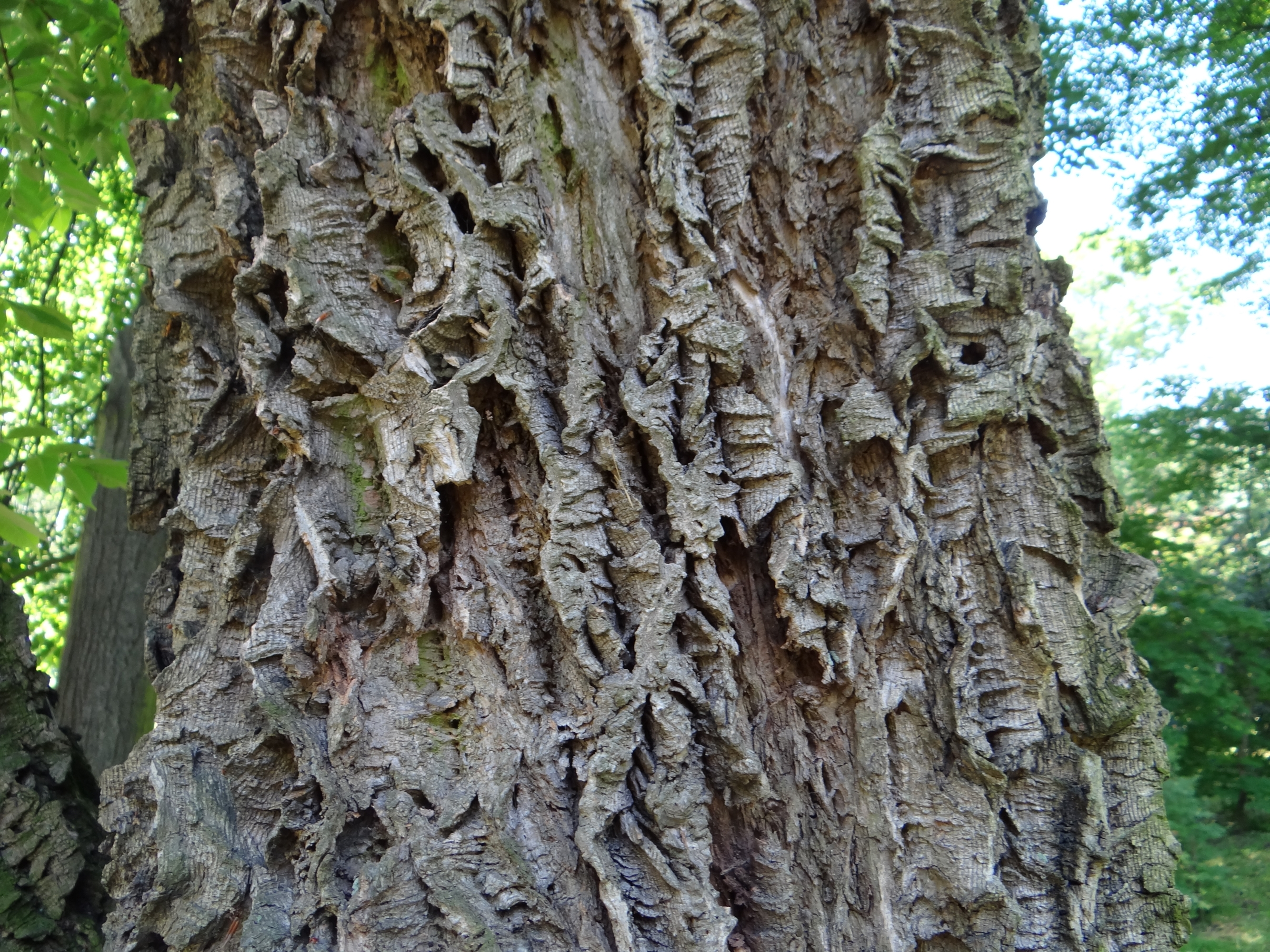 Phellodendron amurense (location:Botanical Garden in Cracow)